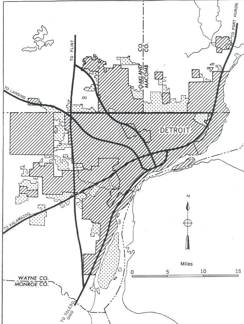 Planning map for Interstate Highways in Metro Detroit. In today's terms, they are: I-94 — Pretty much built to plan, though much was already completed by 1955 I-275 — Western city bypass was originally routed along Telegraph Road (US-24) which was 7 miles to the east of where was eventually built I-75 - Southern section into downtown is relatively close to plan, though it initially followed the railroad line closer to the river. Northern section was originally routed between today's I-75 and the Lodge to merge back into the bypass near Telegraph and Maple road. I-96 - Originally routed along Grand River Road northwest all the way until the Farmington Cutoff which was already being upgraded. Much of this plan was abandoned in the freeway revolts of the 1970s. I-696 — Originally routed along Eight Mile which was 2-3 miles south of where it was built A short never built connection east of downtown along present day Jefferson Avenue